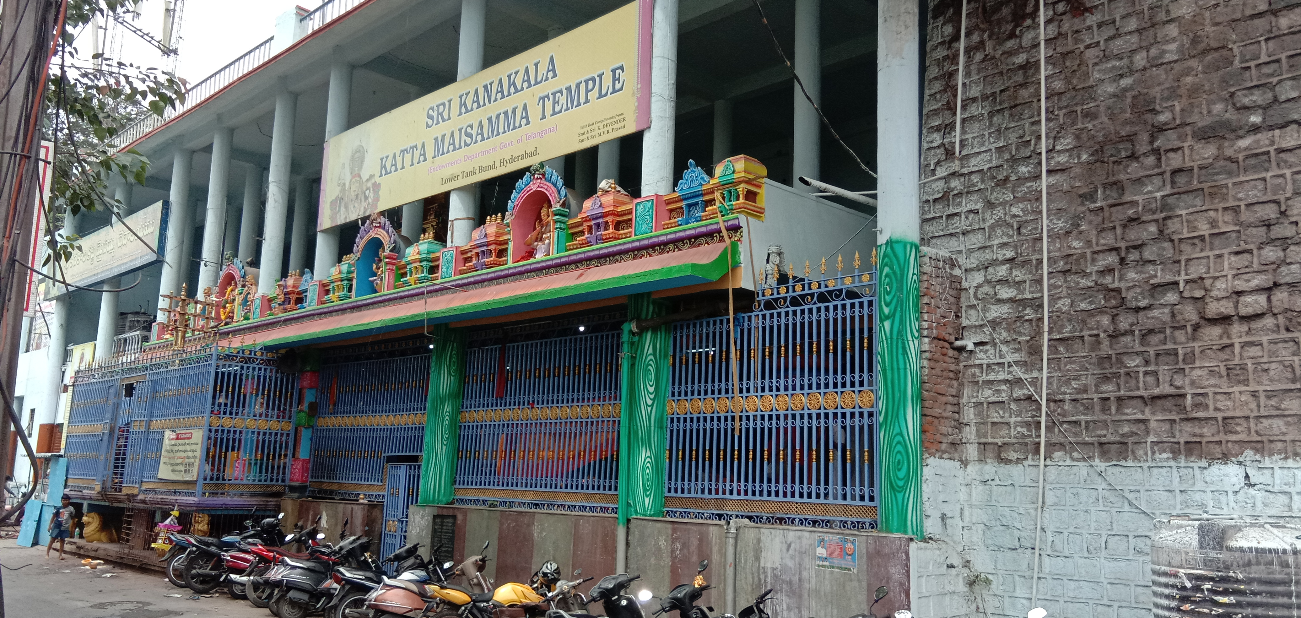 The entrance of the Katta Maisamma temple at Lower Tank Bund, Hyderabad, India